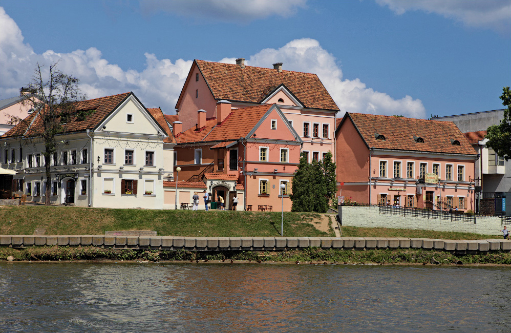 View of Trinity Hill across the Svislach river (Minsk, Belarus)